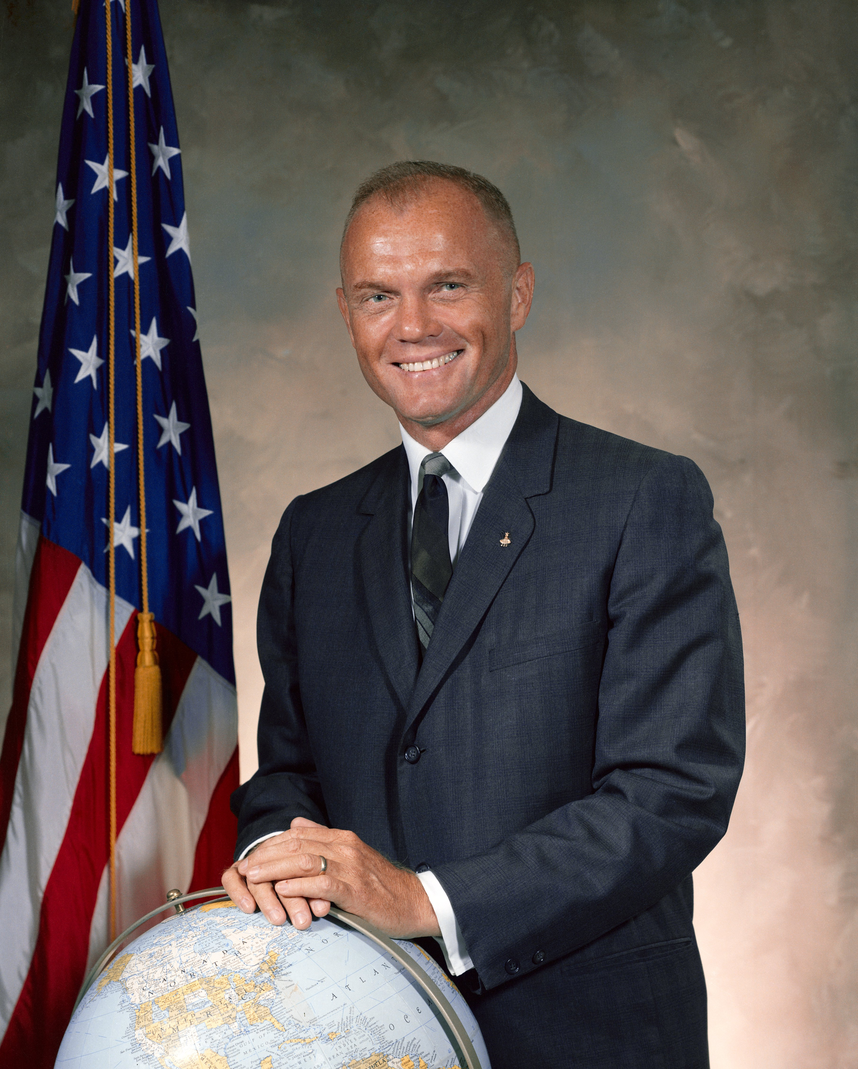 Image ID: S64-36156